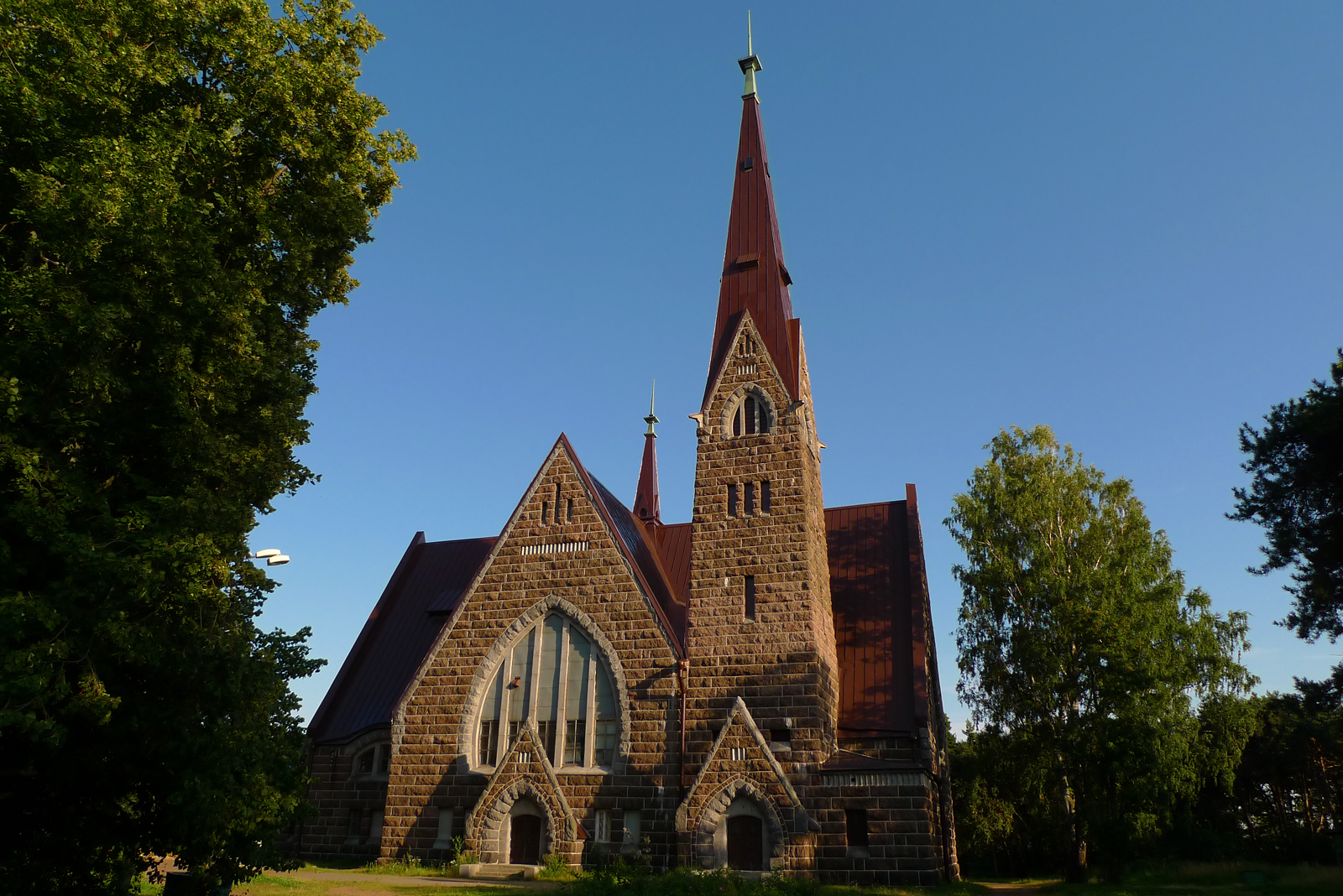 Romanesque revival style Lutheran Church of Mary Magdalene. Primorsk, Leningrad Oblast - Russia.